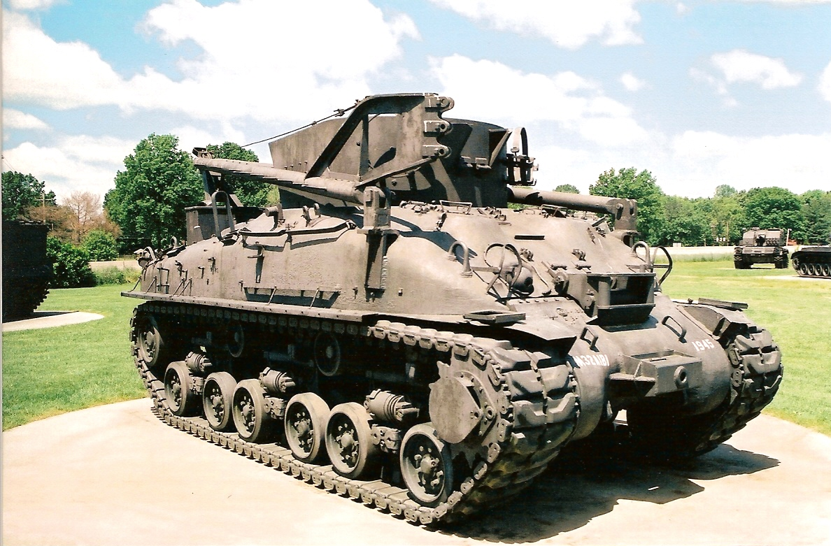 M32 ARV at the Patton Museum, Summer 2003.